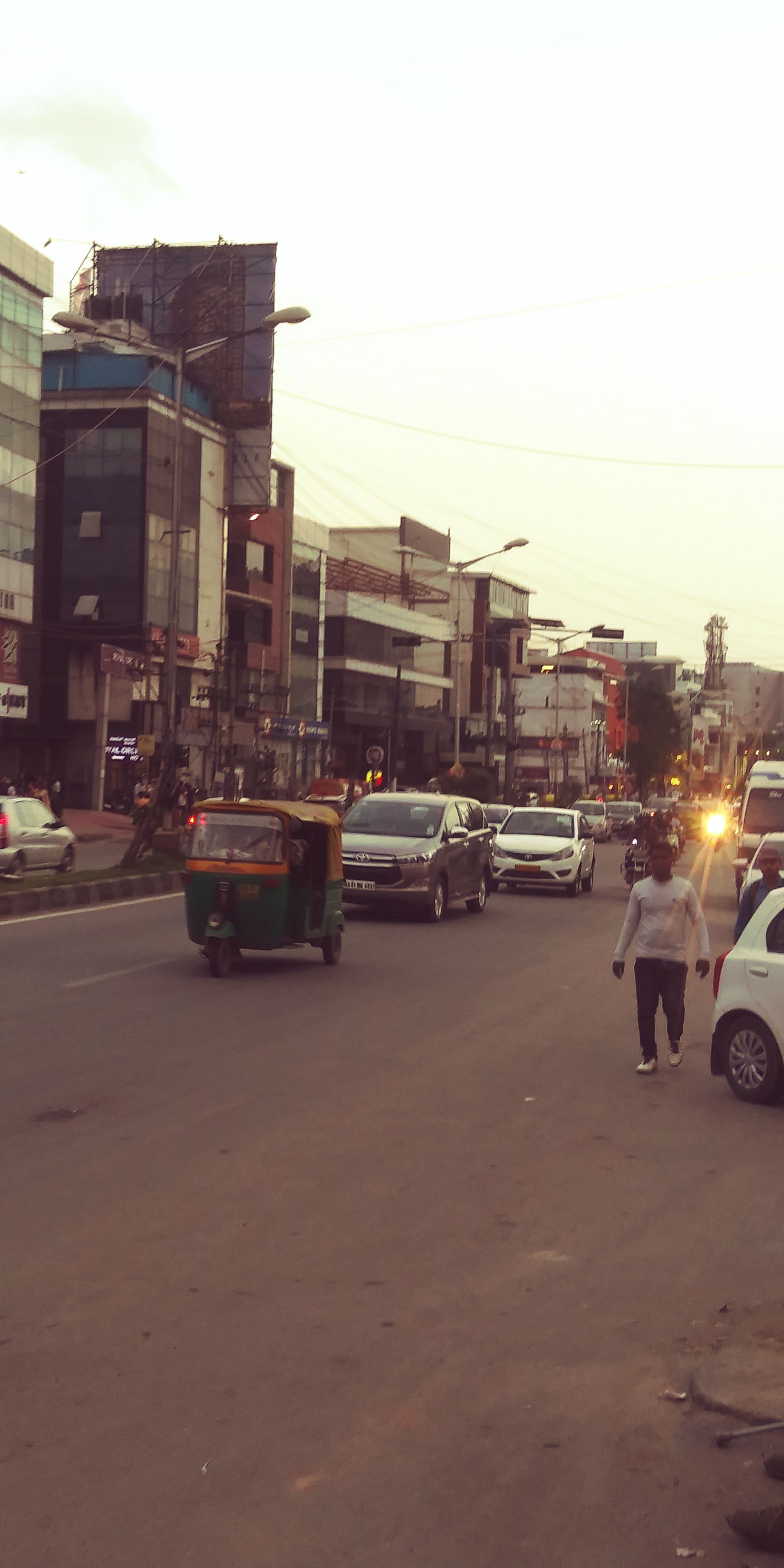 irr domlur